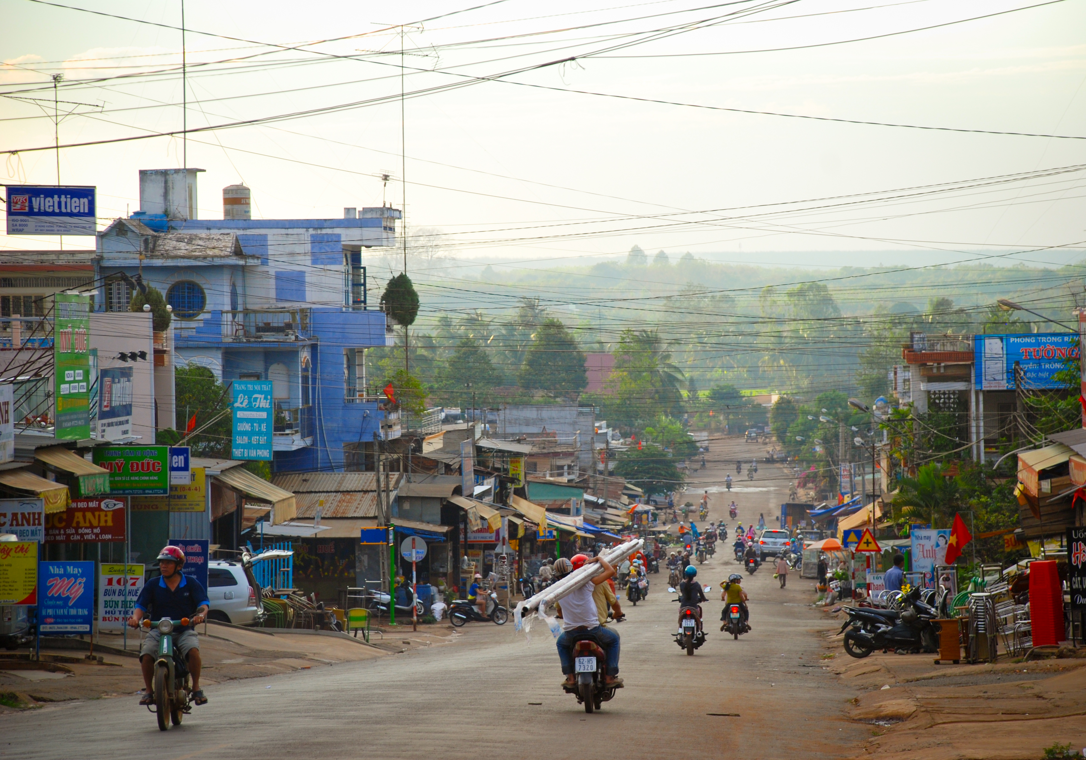 Binh Long town, Binh Phuoc province, Vietnam